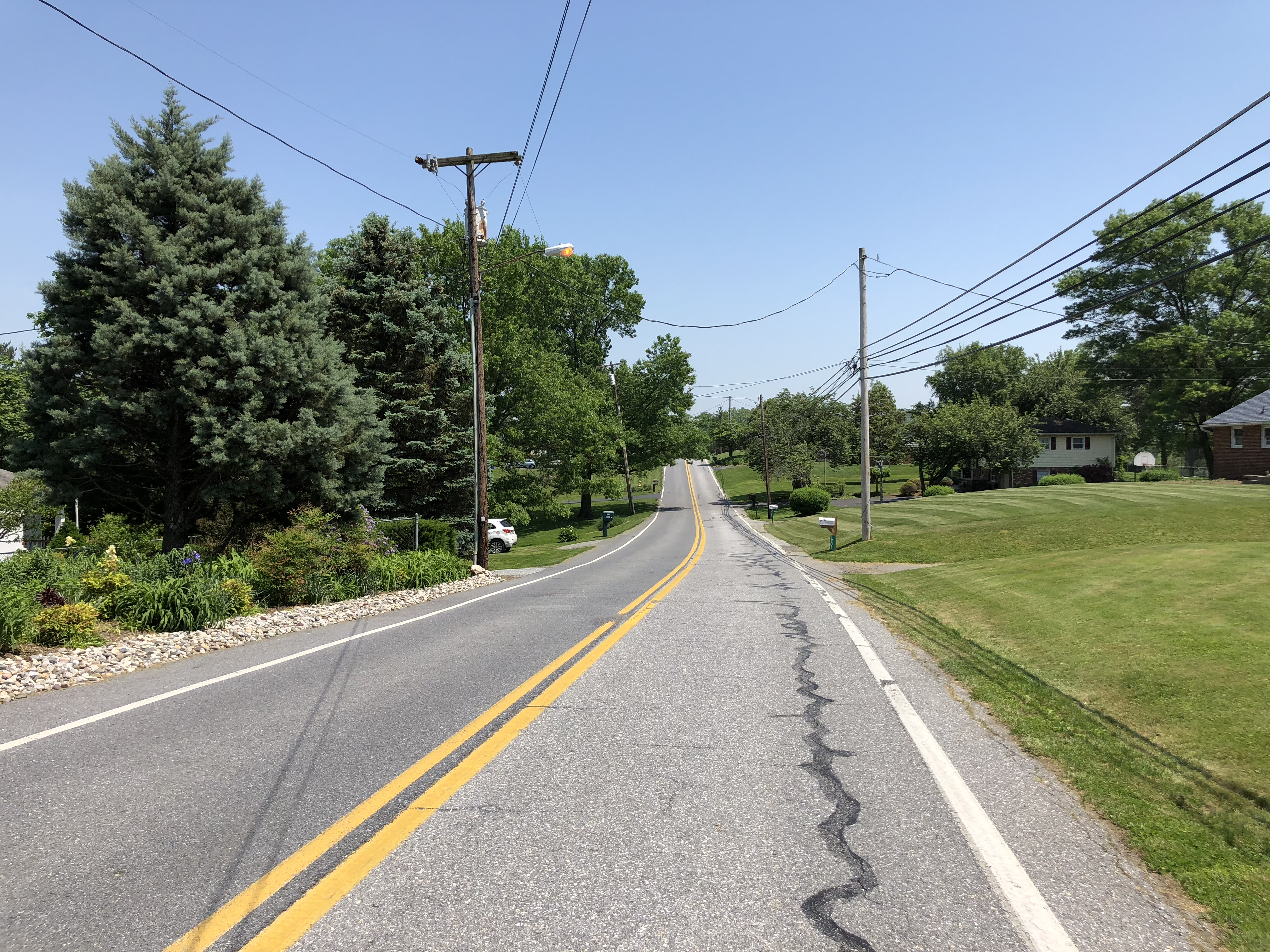 View east along Maryland State Route 871 (Rosemont Drive) between Maplecrest Drive and Maryland State Route 79 (Petersville Road) in Rosemont, Frederick County, Maryland